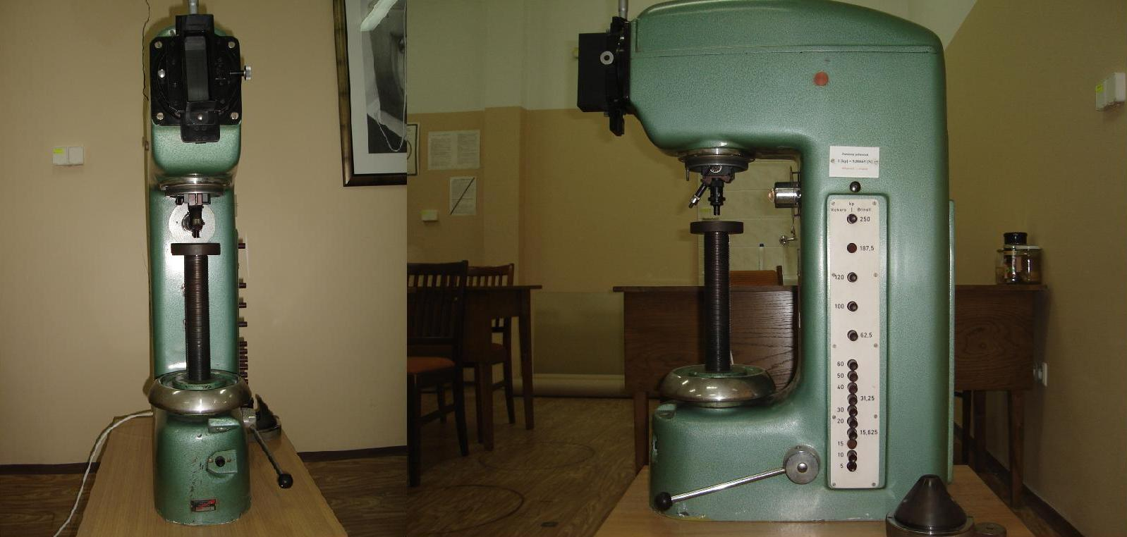 A Vickers scale & Brinell scale hardness tester.